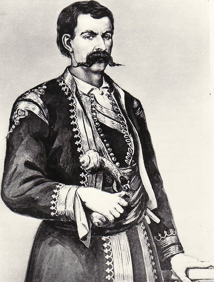 Petar Nikolajević Moler (1775 - 1816), Serbian commander